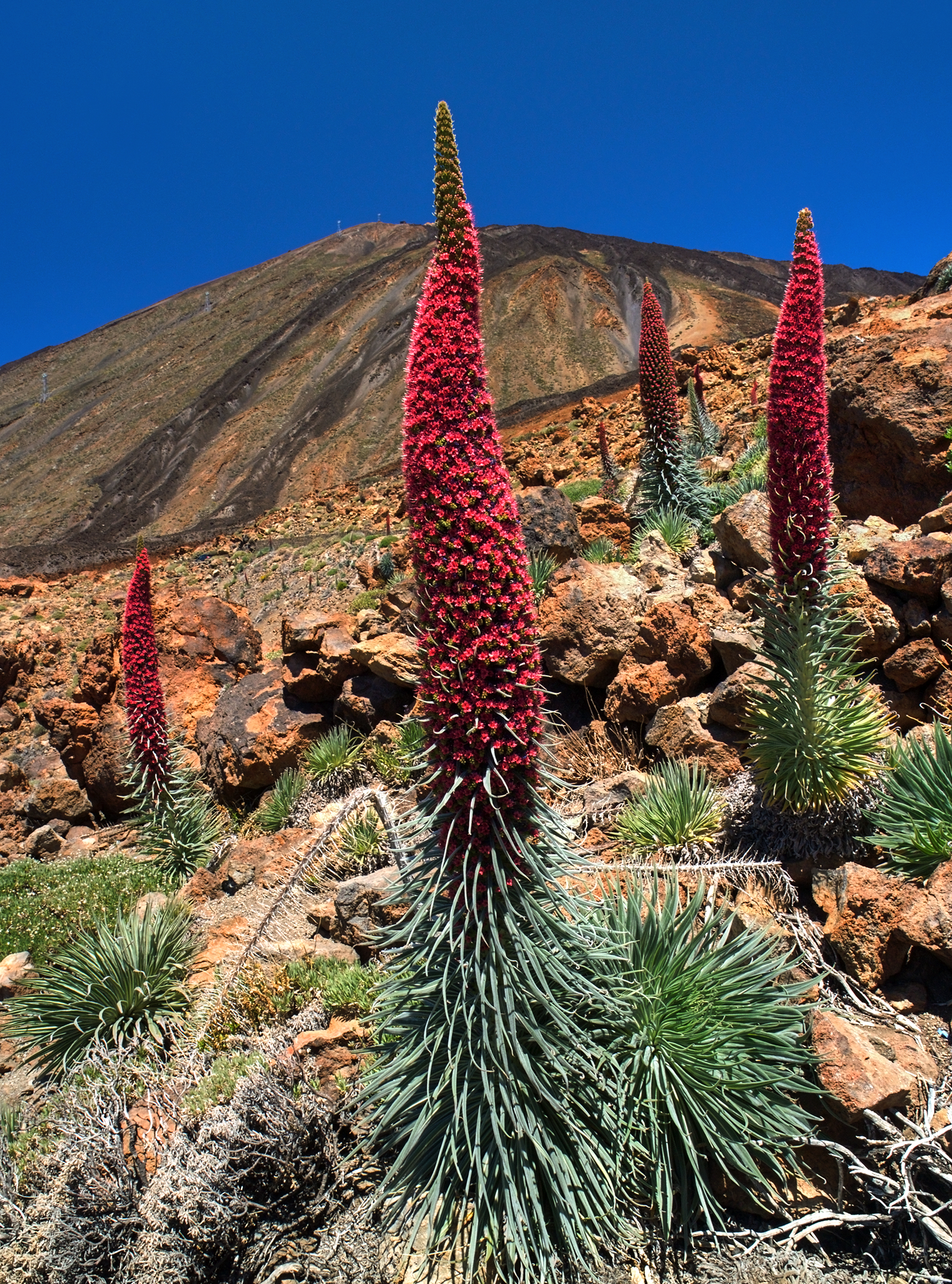 Red Mount Teide bugloss (Echium wildpretii); Las Cañadas, Tenerife, Spain